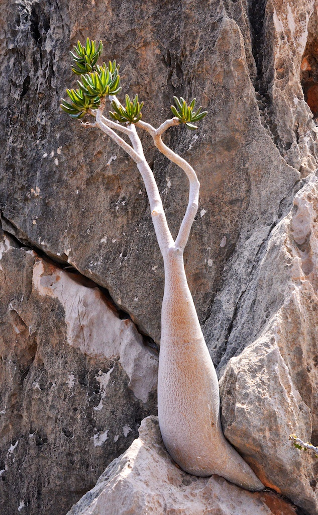 Bottle Tree, Socotra Island